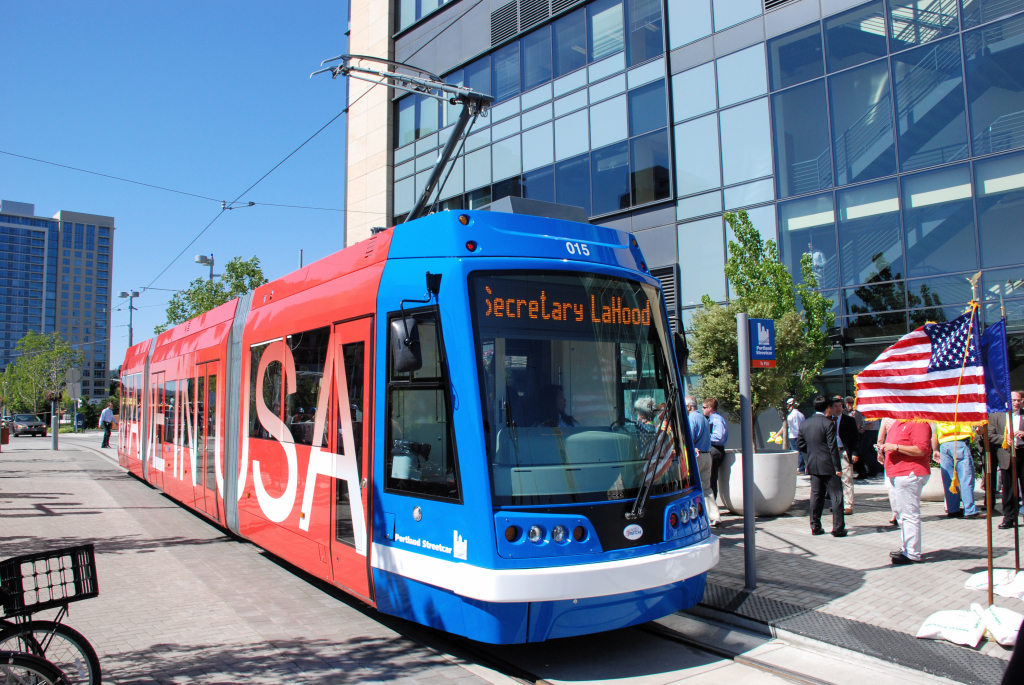 The prototype streetcar (tram) built by U.S. manufacturer United Streetcar, LLC, using Škoda's 10T design under license. It is car number 015 in the fleet of the Portland Streetcar system (of Portland, Oregon). It is pictured at the OHSU Commons stop, in Portland's South Waterfront District, at the end of an unveiling ceremony at which the key speaker was U.S. Transportation Secretary Ray LaHood. The car's destination sign had been temporarily programmed to welcome the secretary. In common with all other cars in the fleet, car 015's two-color paint scheme is reversed on the opposite sides and ends; the side not visible here is blue, and the far end (which also has a driving cab) is red. As of spring 2012, car 015 has not yet entered service, because of a 2010 decision to change its propulsion equipment, which was implemented in 2011.